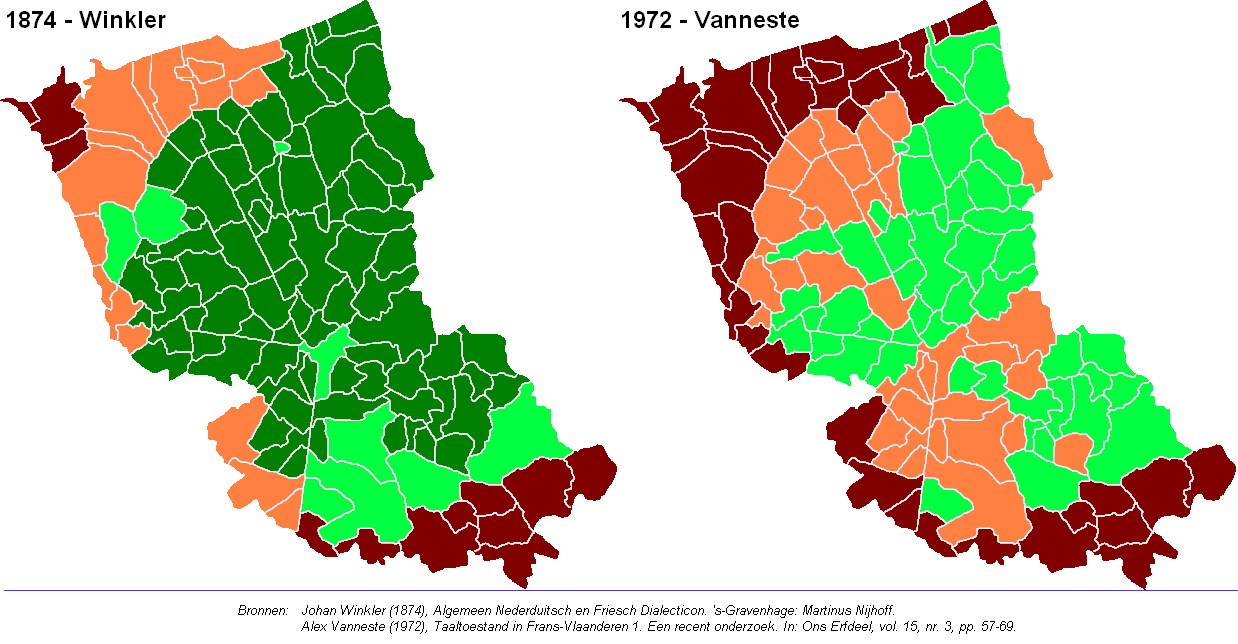 French two languages, with an majority of french two languages, with an majority of flemish Dutch (West Flemish) français: francophone bilingue, avec majorité francophone bilingue, avec majorité flamande néerlandophone (flamand occidental)